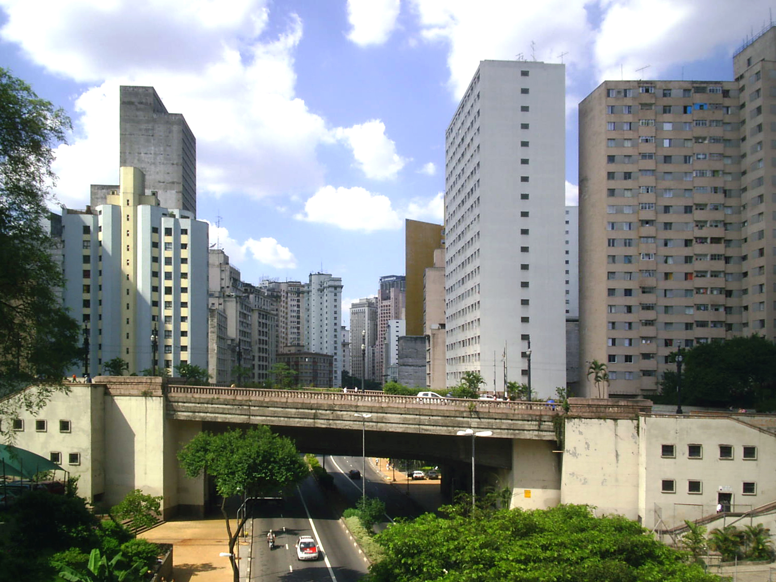 Nove de Julho Bridge in São Paulo city, Brazil.